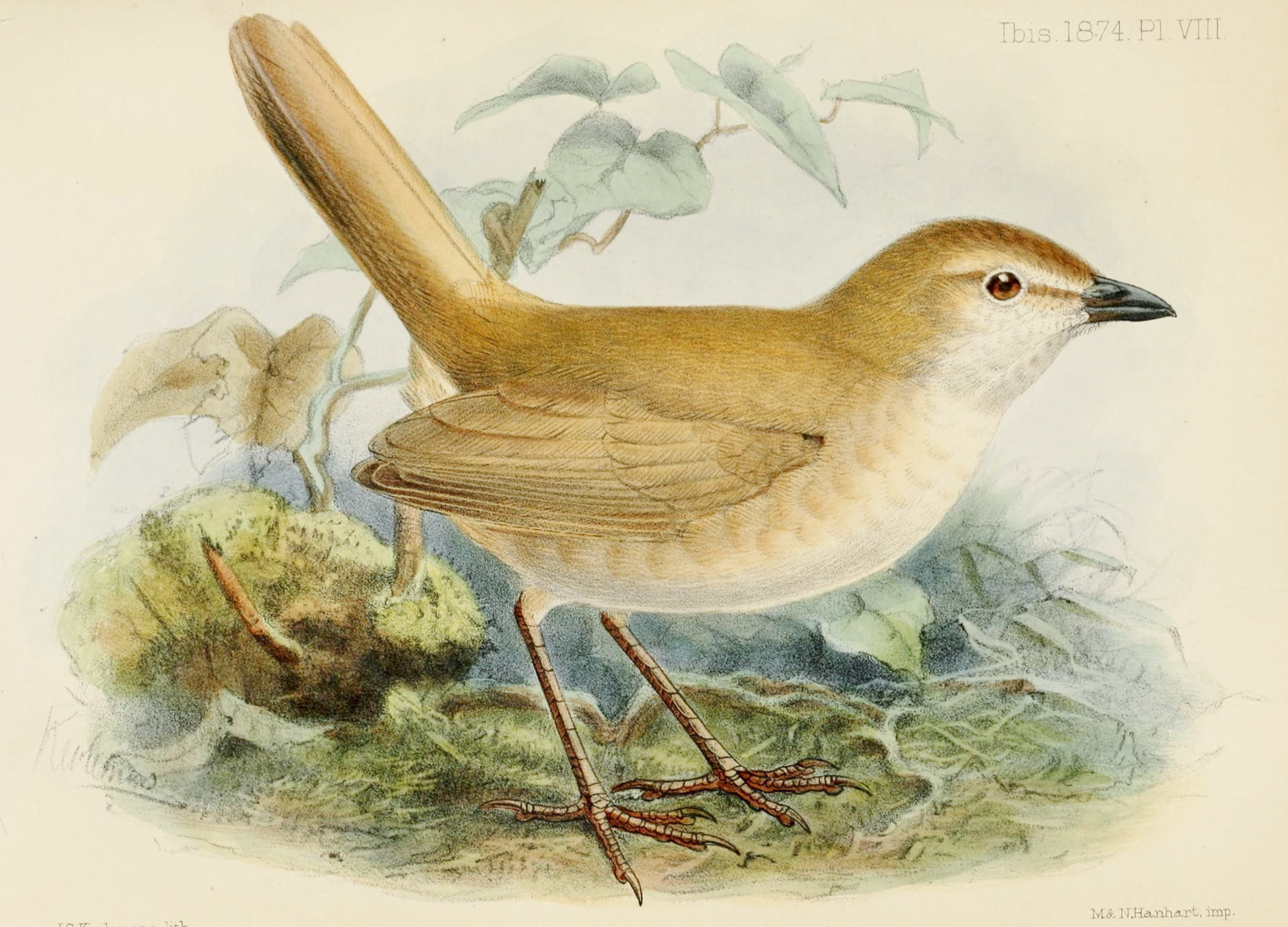 « Rhinocrypta fulva » = Teledromas fuscus (Sandy Gallito)